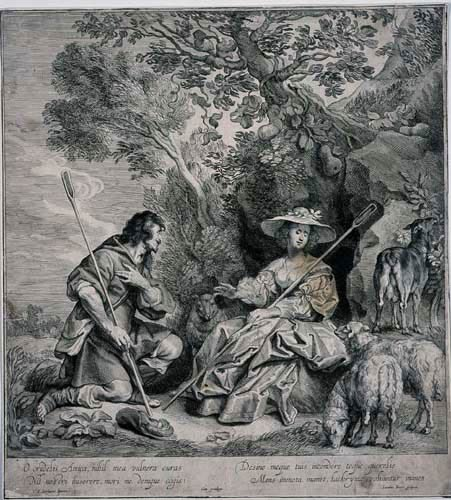 A Shepherdess Spurns a Shepherd’s Love, engraving by Jacob Neefs after a drawing by Jacob Jordaens, burin and etching, 32,8 x 29,8 cm